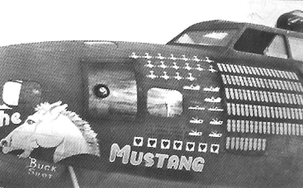 B-17F-25-BO Flying Fortress 41-24554 "The Mustang", flew with the 403rd Bombardment Squadron, 43rd Bombardment Group in Australia and New Guinea. It completed 109 missions and claimed 17 Japanese aircraft before being returned to ther United States as War-Weary in late 1943. (USAAF Photo)